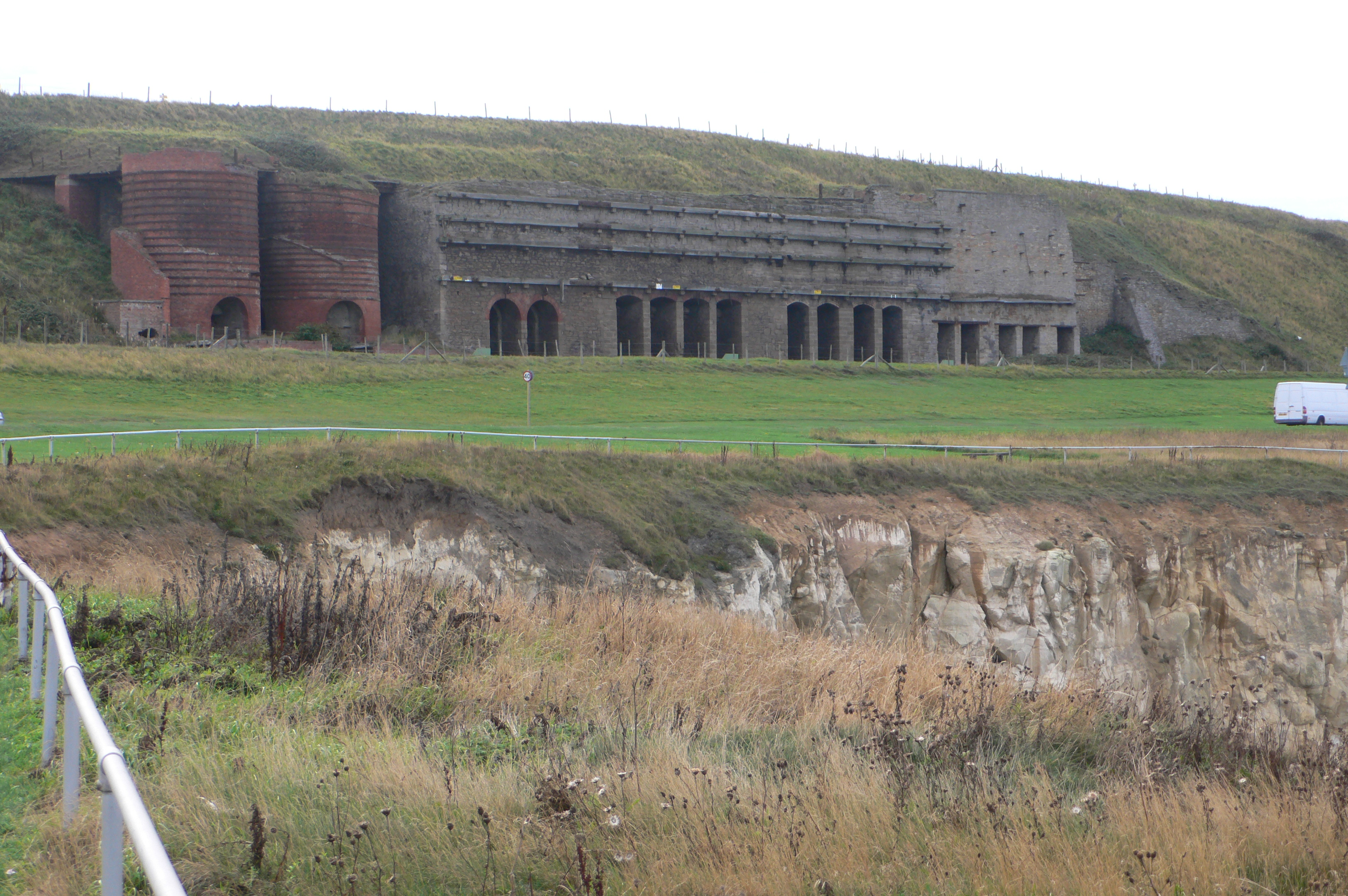 marsden limekilns, my image Sept 2006